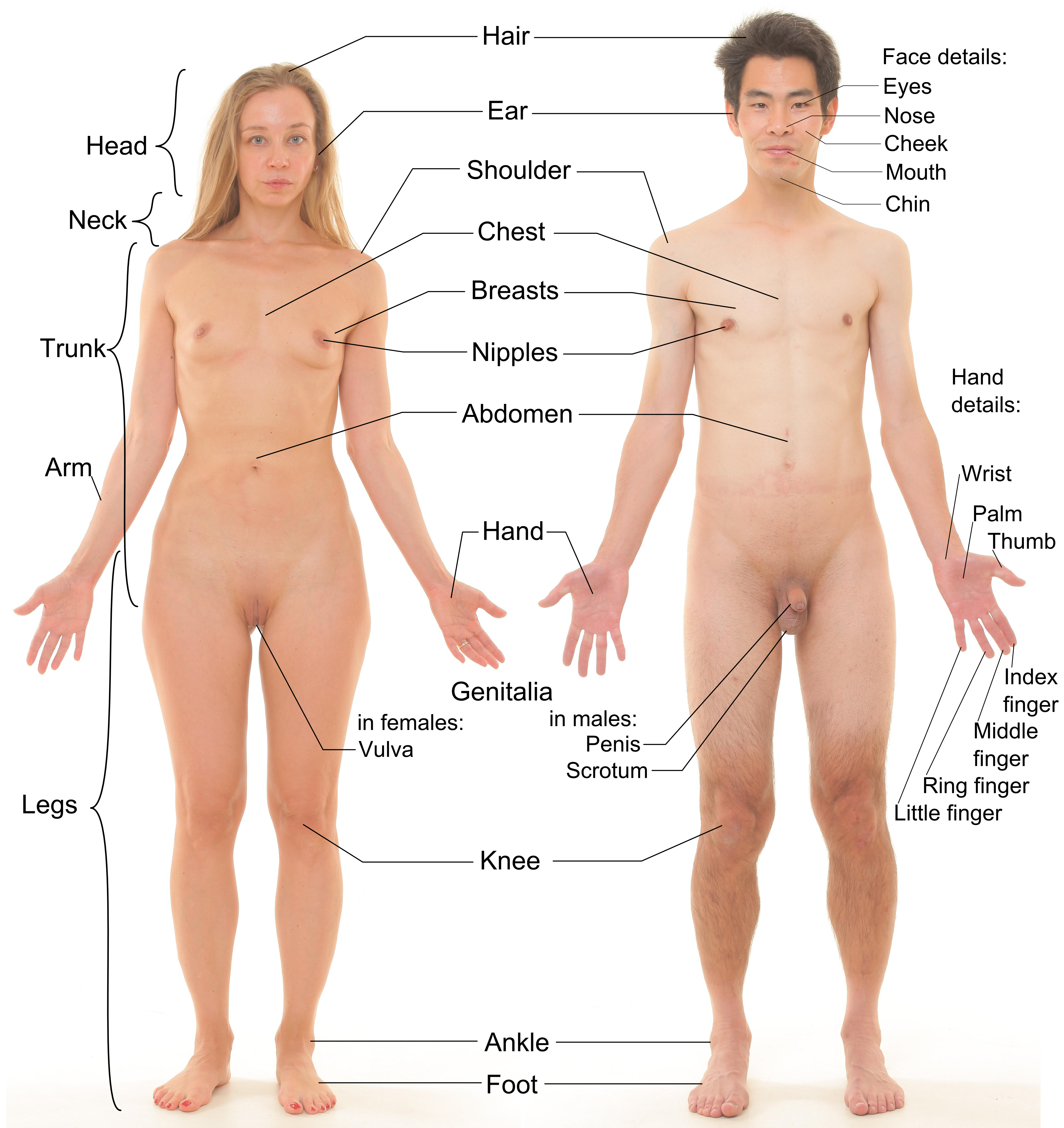 Naked female and male human body with labels.